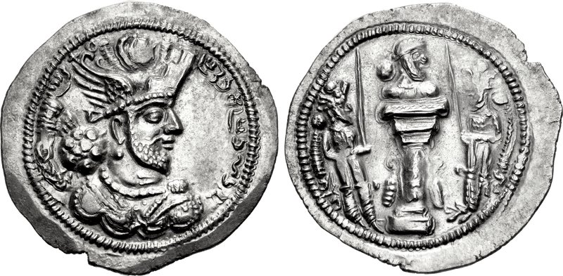 Coin of Bahram IV, a Sasanian king.